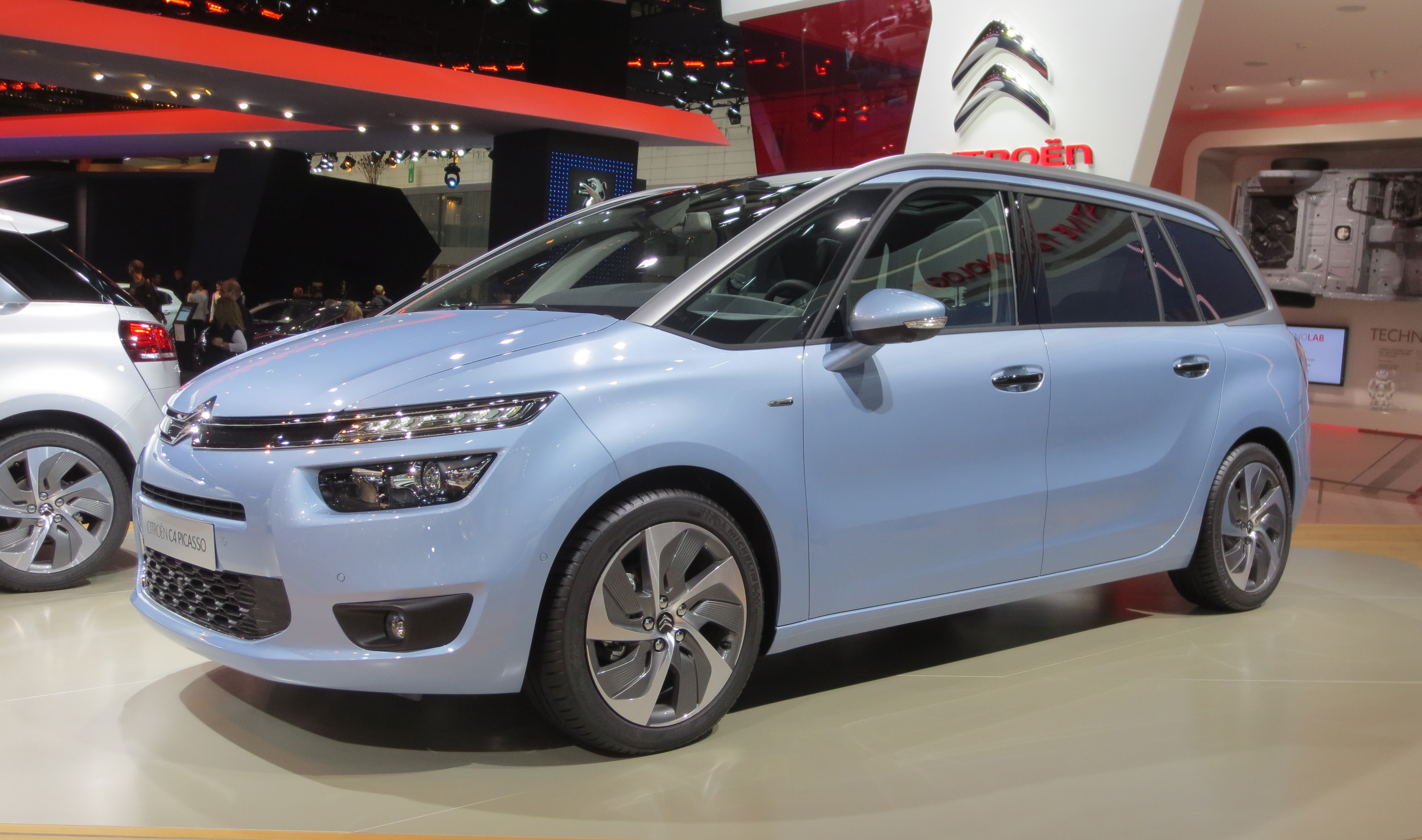 Subject: Citroën C4 Picasso Mk2 7 places Author: Luc106 Date:September 17th, 2013 Event: IAA 2013 Place/Country: Frankfurtermesse, Frankfurt am Main (Deutschland) I release all rights in the public domain.